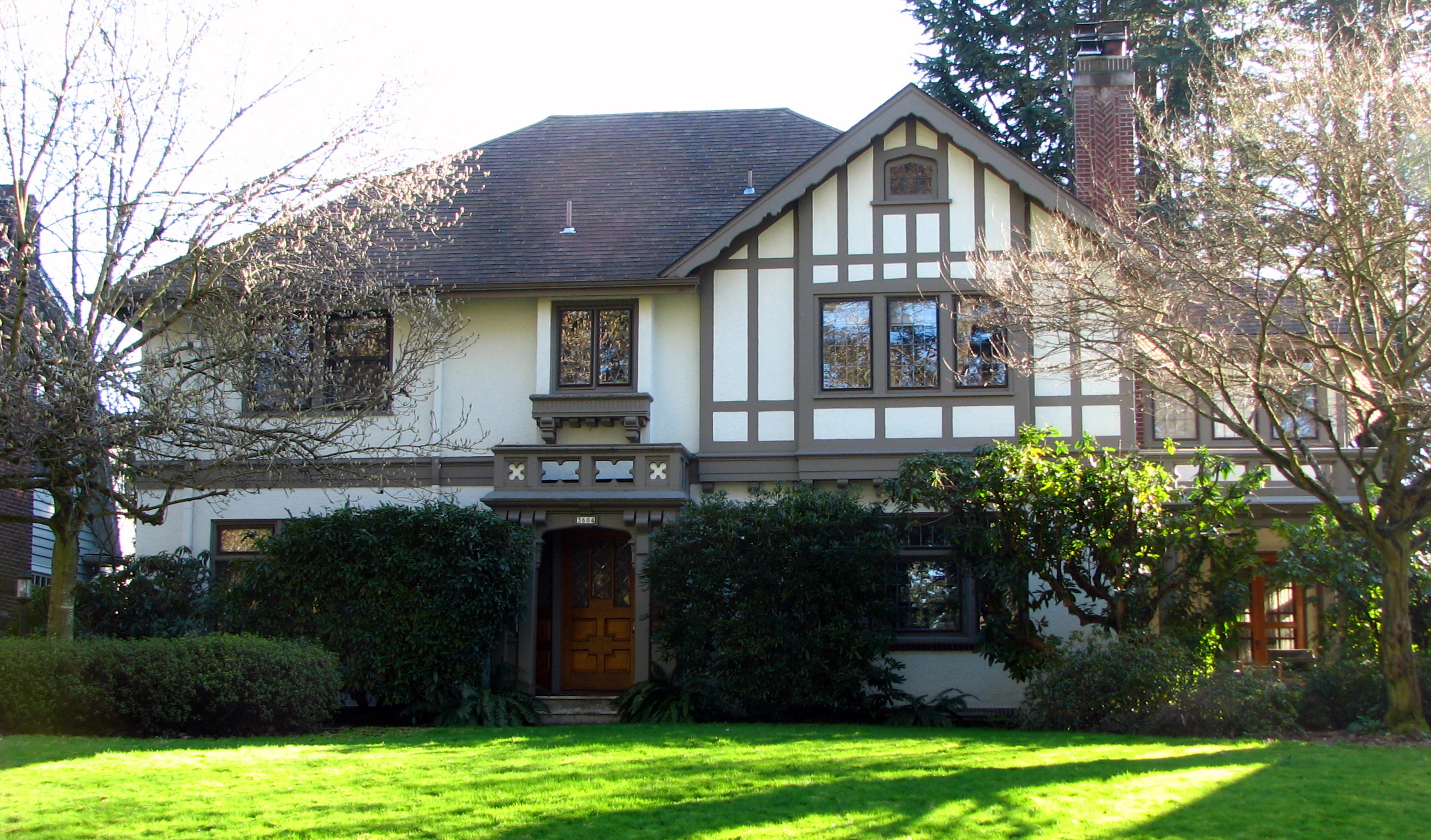 The historic Louis J. Bader House (built 1922), located at 3604 Southeast Oak Street in Portland, Oregon, United States, is listed on the US National Register of Historic Places (NRHP).NRHP reference number 89001856